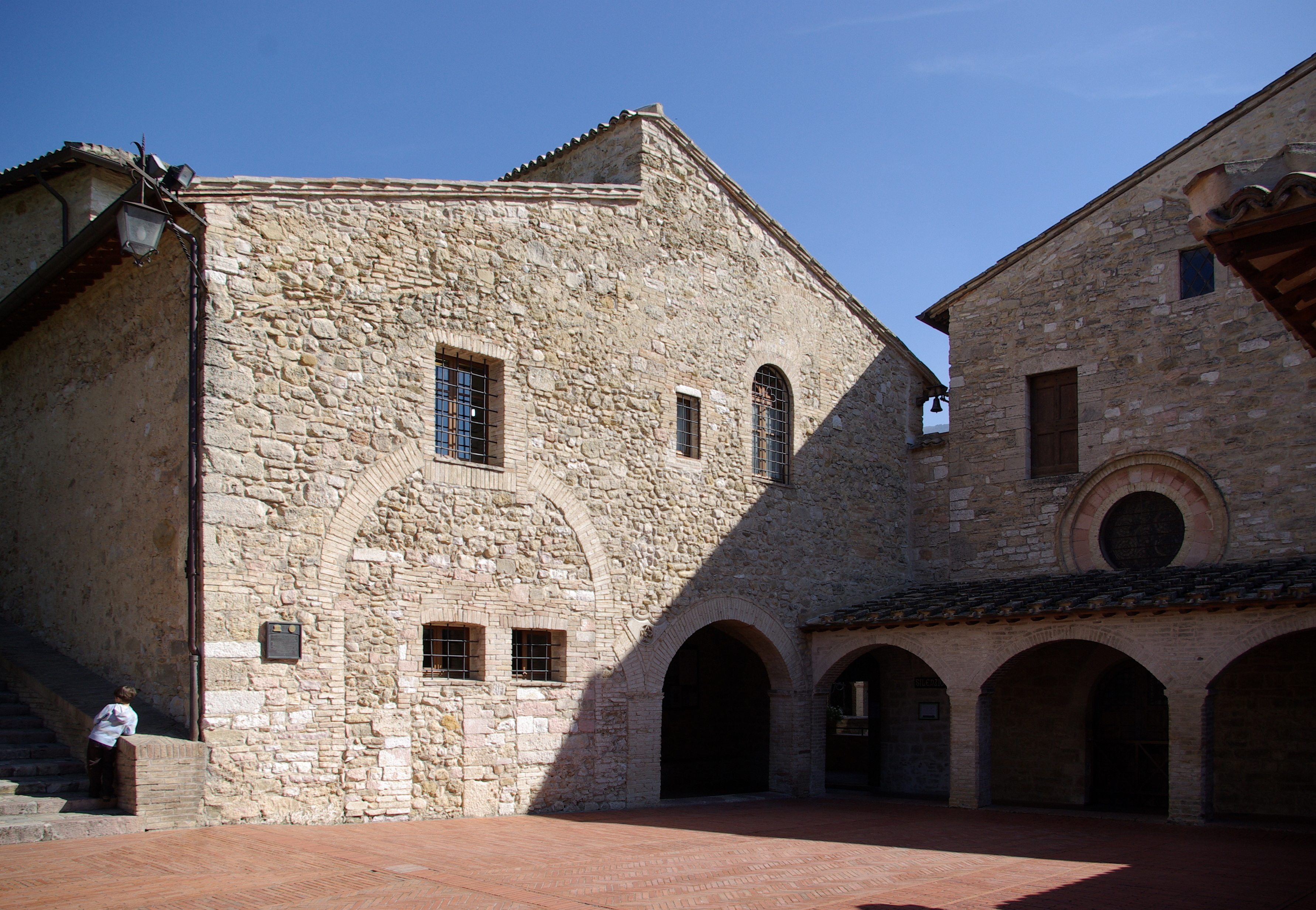 Assisi, San Damiano